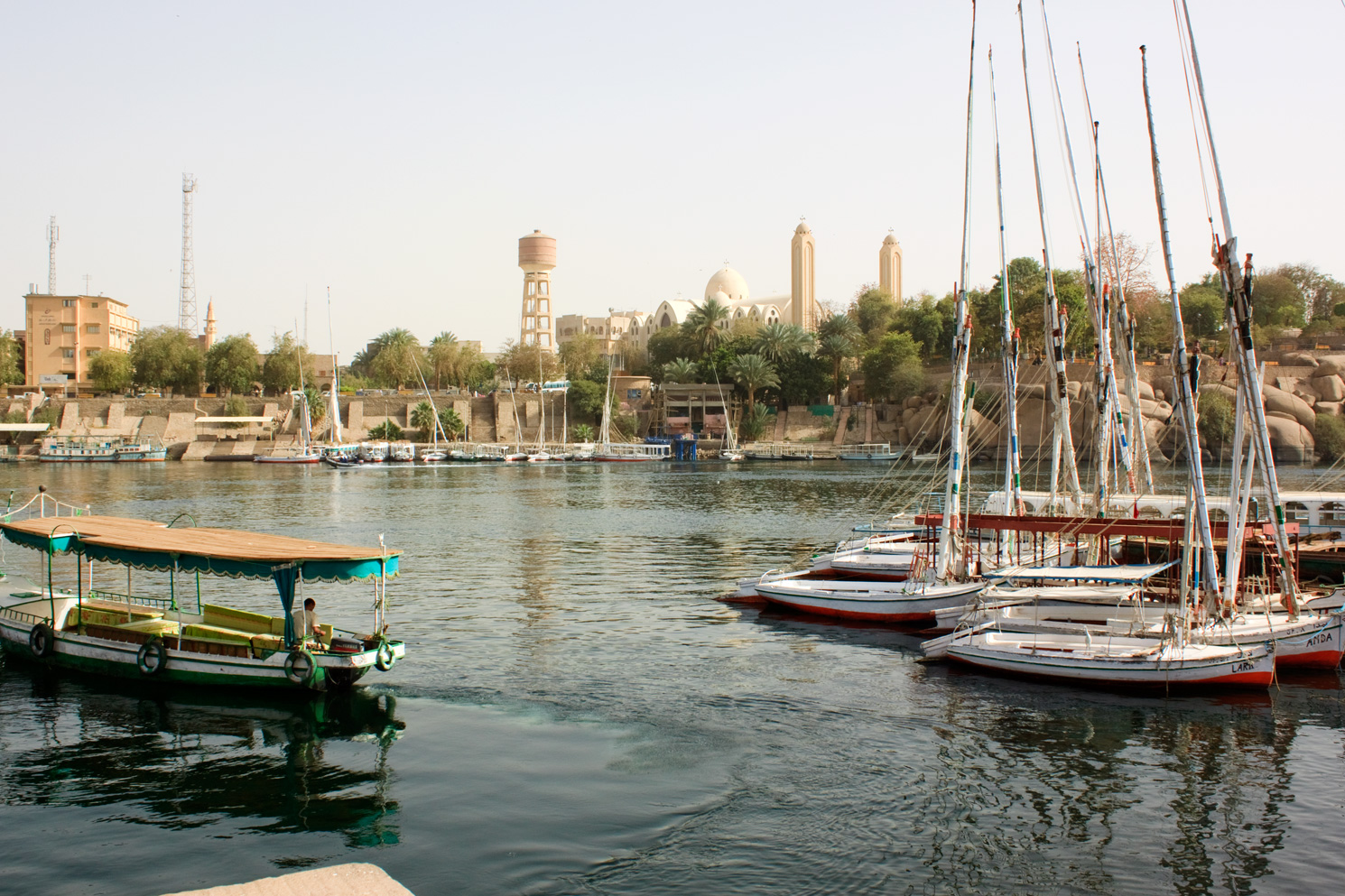 View across the Nile. In the background is a Coptic cathedral. Felucca's in the foreground.